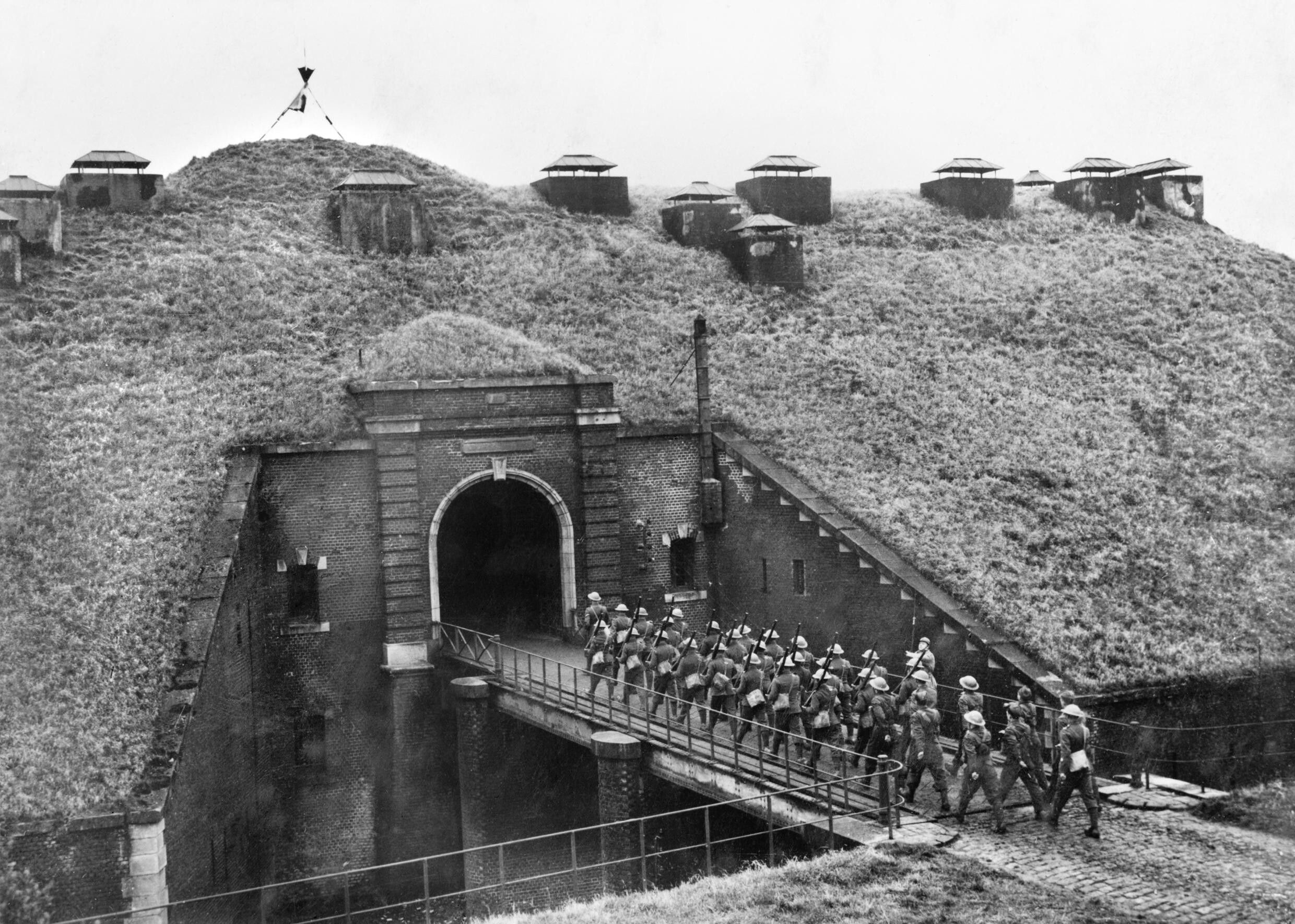 Troops of 51st Highland Division march over a drawbridge into Fort de Sainghain on the Maginot Line, 3 November 1939. 51st Highland Division in the Maginot Line: British soldiers pass over a drawbridge into Fort de Sainghain on the Belgian Frontier.